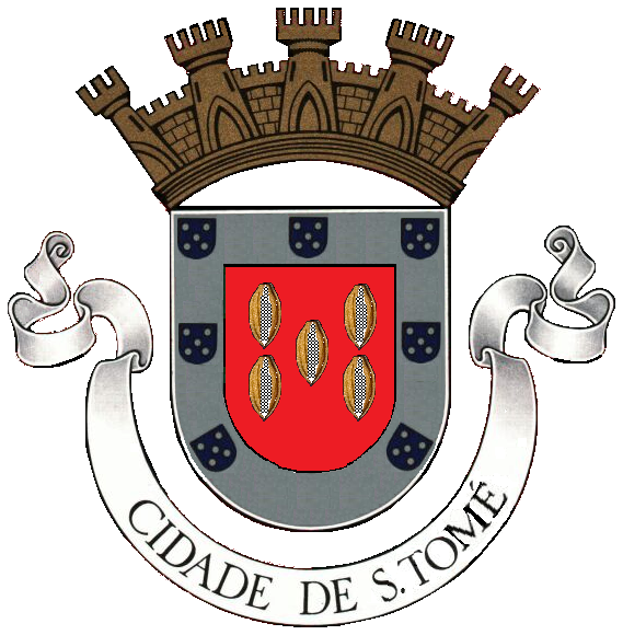 (Coat of arms of the city of São Tomé, São Tomé e Príncipe, during Portuguese rule (may be still in use). Emerson)